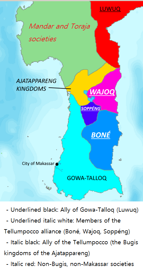 A geopolitical map depicting South Sulawesi around 1590, divided between Gowa-Talloq and the alliance of the Tellumpocco. Made with DEMIS World Map Server; data from Ian Caldwell's article "Power, State and Society Among the Pre-Islamic Bugis." Also shows the kingdoms of Wajoq (Wajo), Boné (Bone, Boni) and Soppeng.